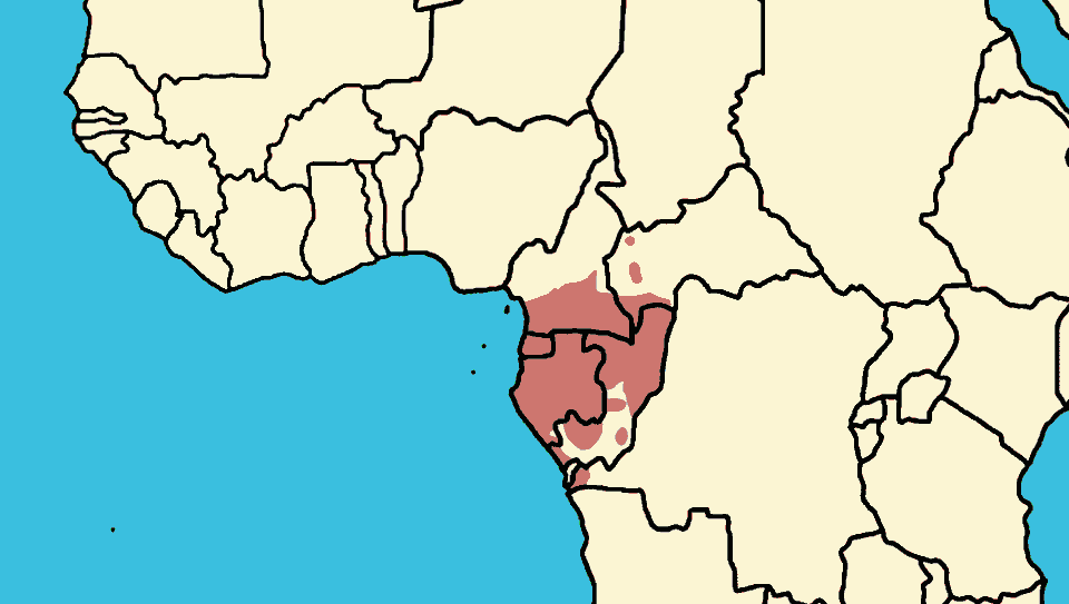 Modification of the map Image:Pan troglodytes area.png made by Luís Fernández García.